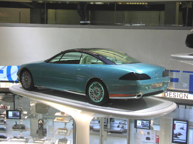 Mercedes-Benz F200 "Imagination" Prototype